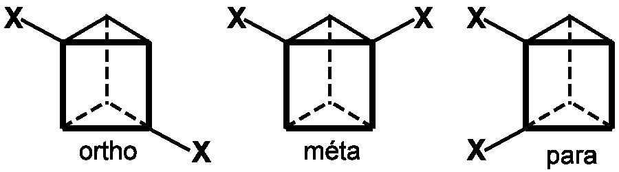 Ortho, meta, para isomers of disubstitued prismane as Landeburg proposed them for Ladenburg benzene in 1869.